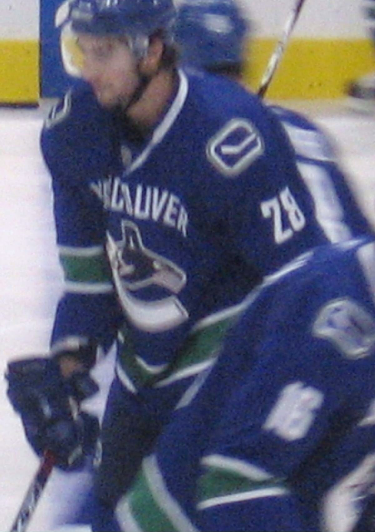 Luc Bourdon, defenceman for the Vancouver Canucks, warming up at GM Place before playing the Minnesota Wild on November 16, 2007. Bourdon would score his first NHL goal during the game.